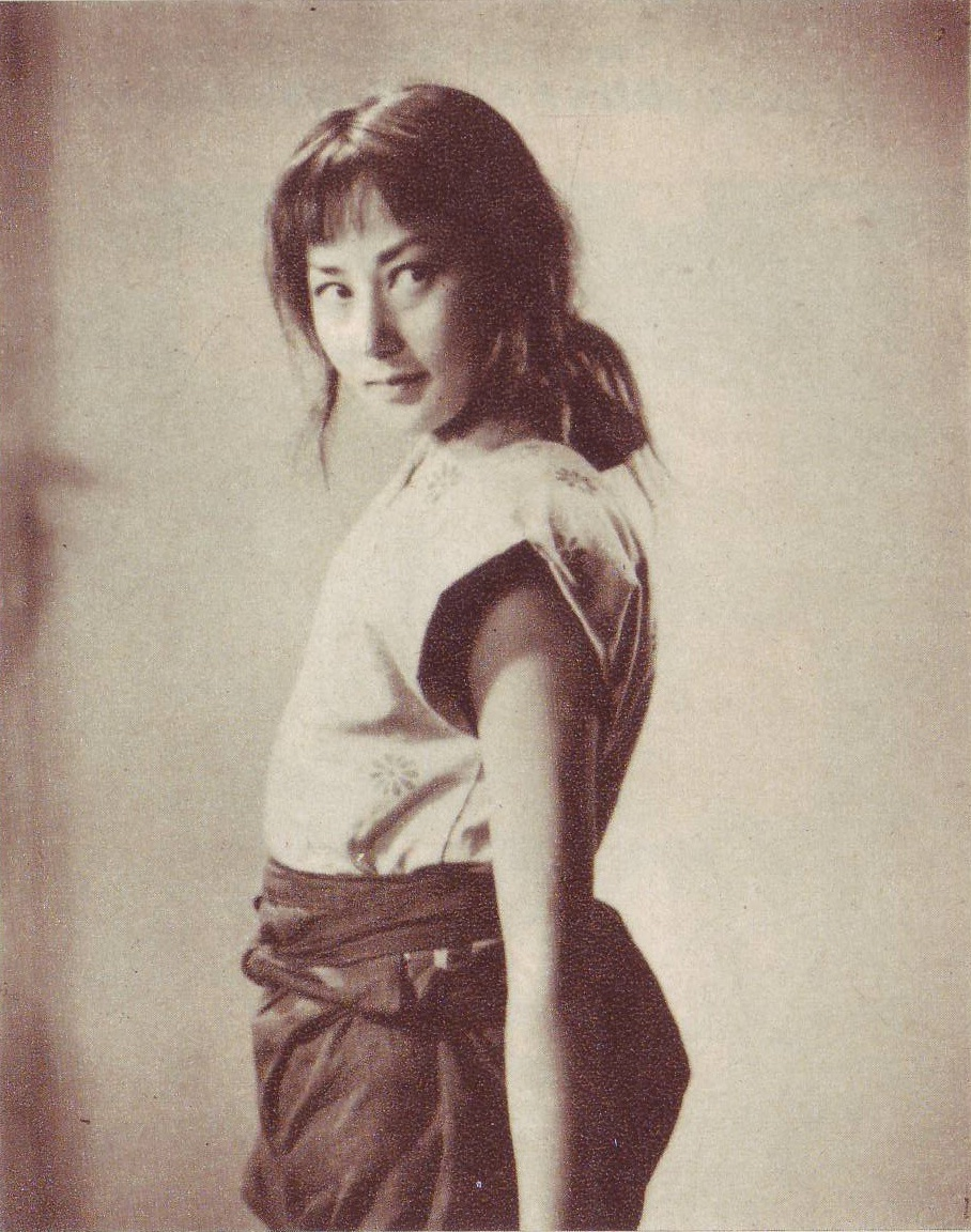 Misa Uehara. taken in 1957.